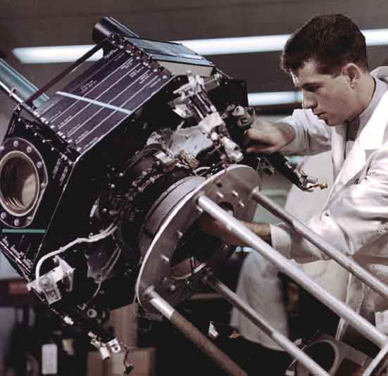 Researcher checks out Explorer 18 satellite